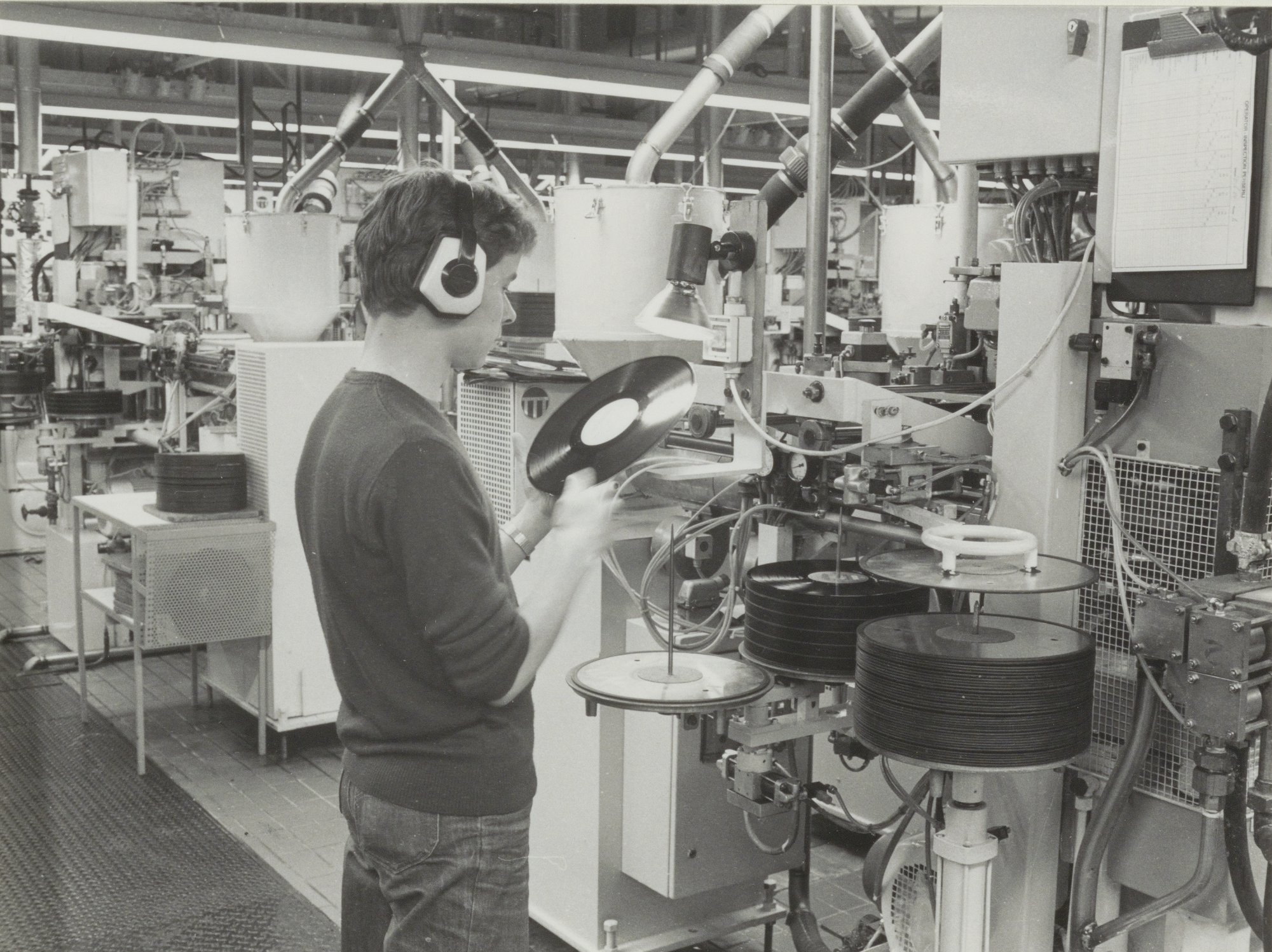 Persen van grammofoonplaten bij CBS. Nijverheidsweg, Waarderpolder.